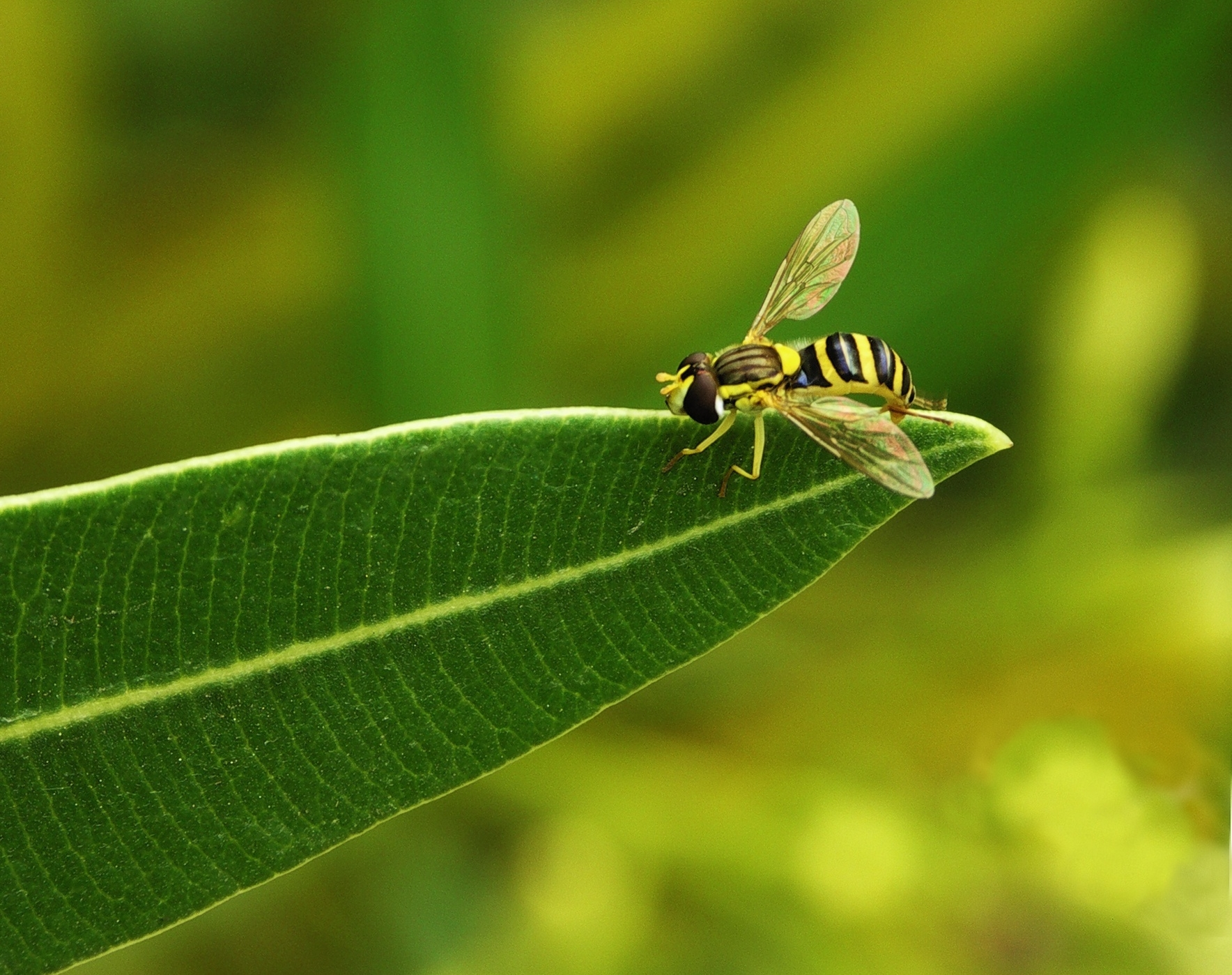 Sphaerophoria scripta on a leaf of oleander